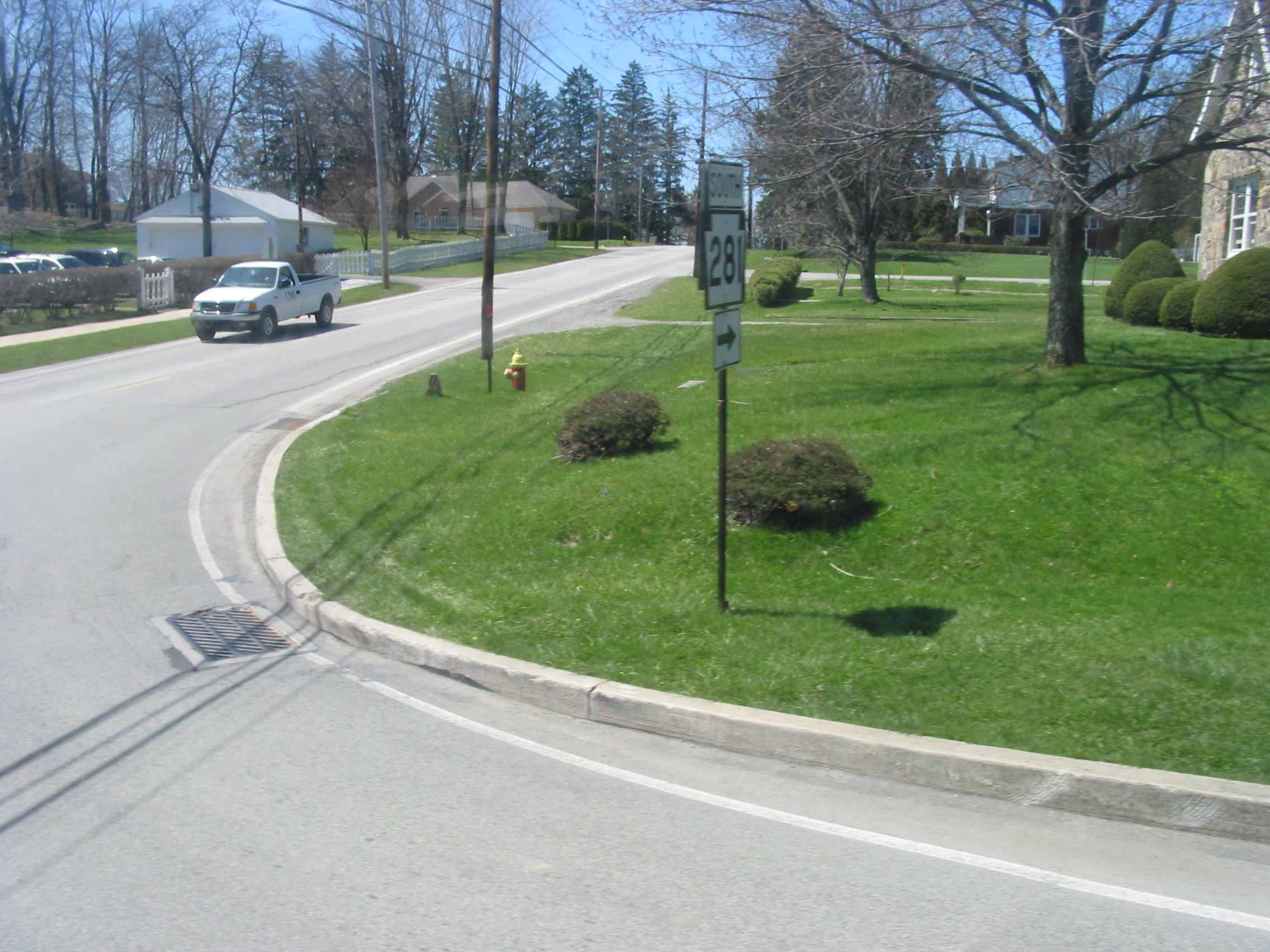 Looking south at PA 281 from PA 31 east in Somerset, at the western terminus of the one-way pair.